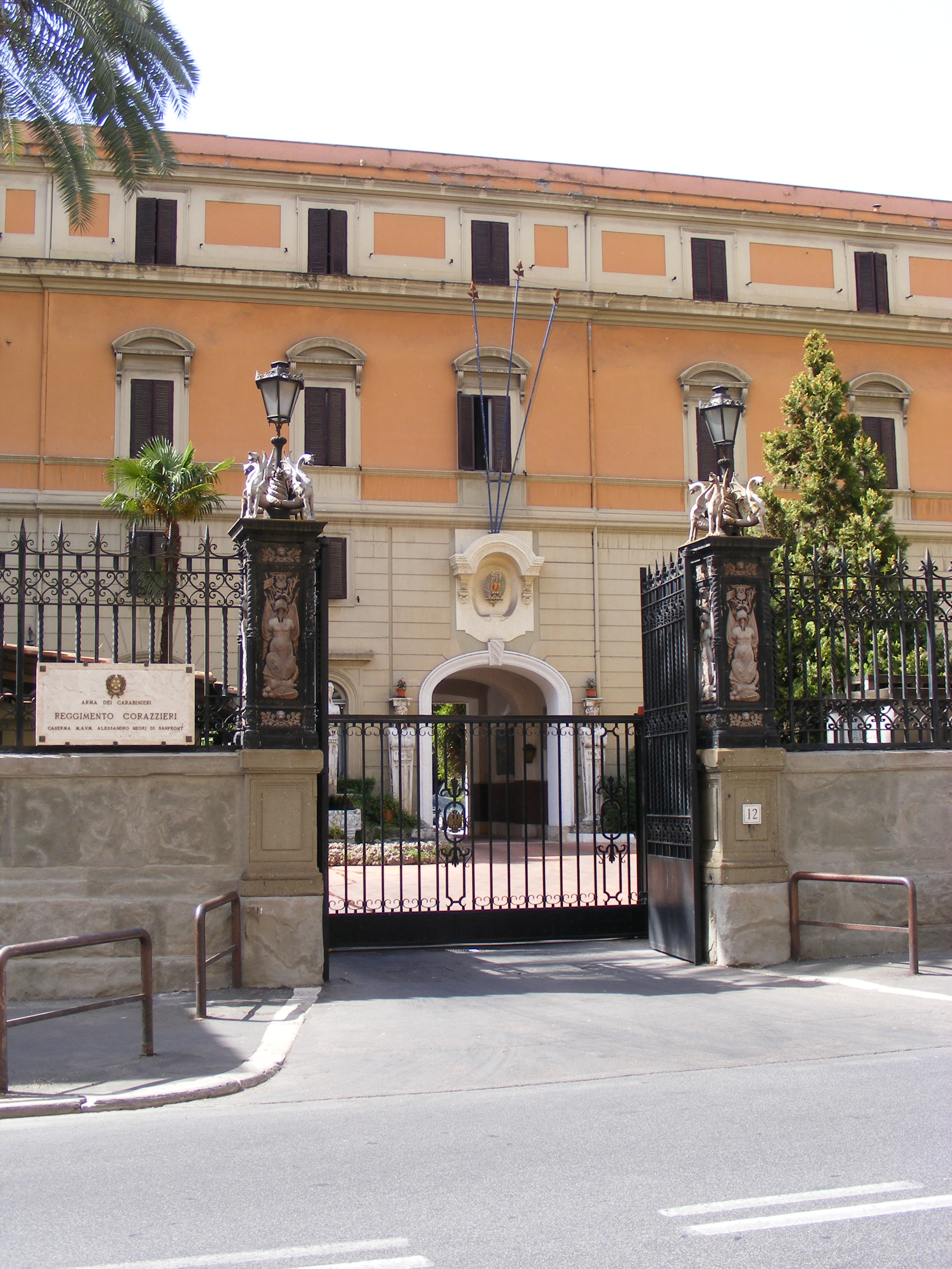 Comando Carabinieri, Reggimento Corazzieri - Caserma (Carabinieri Cavalry Regiment HQ), Via XX Settembre, 12